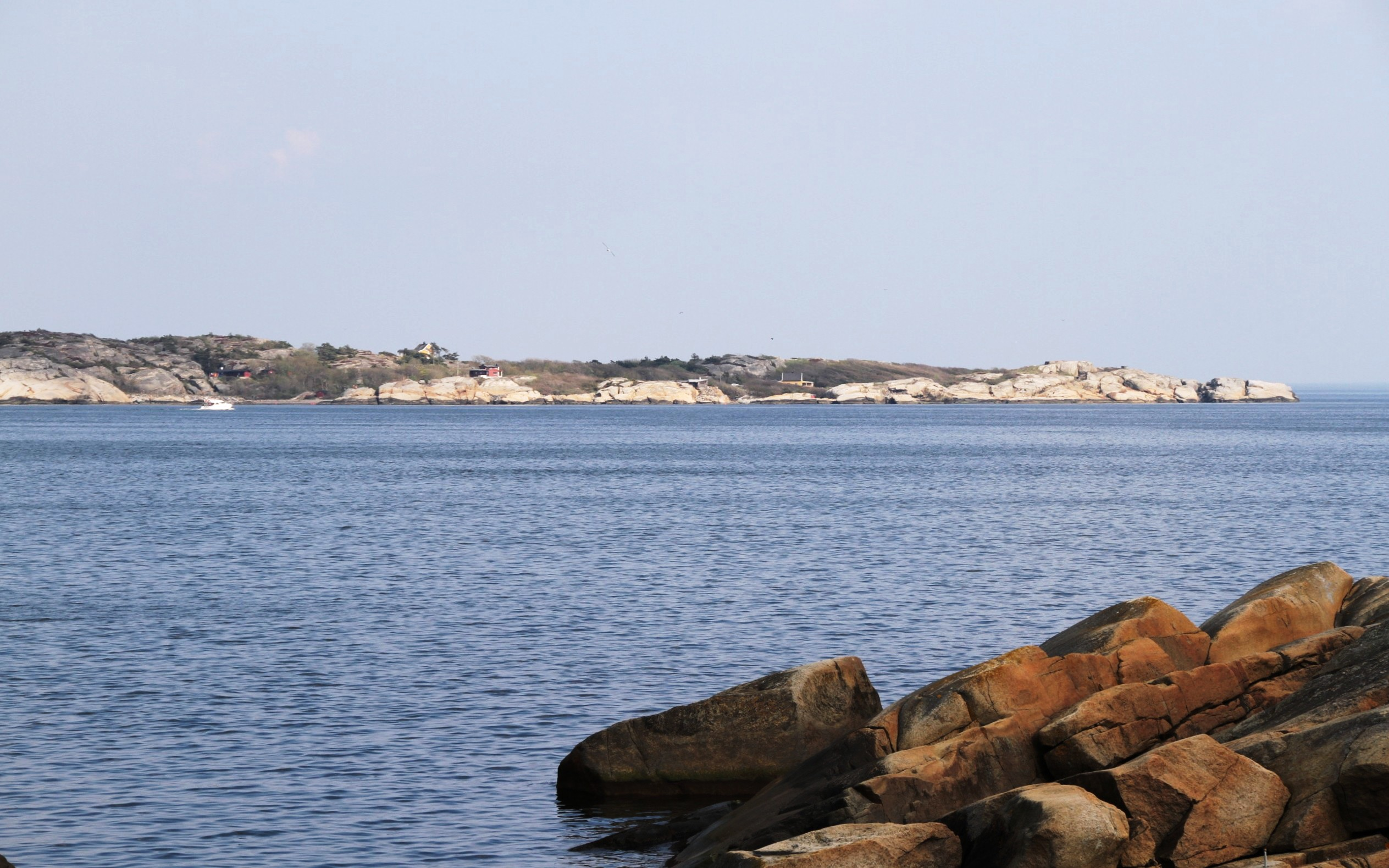 Image of the outher Sandefjordfjorden (Sandefjord Fjord). Seen from the western (Larvik) coast towards the eastern (Sandefjord) coast.